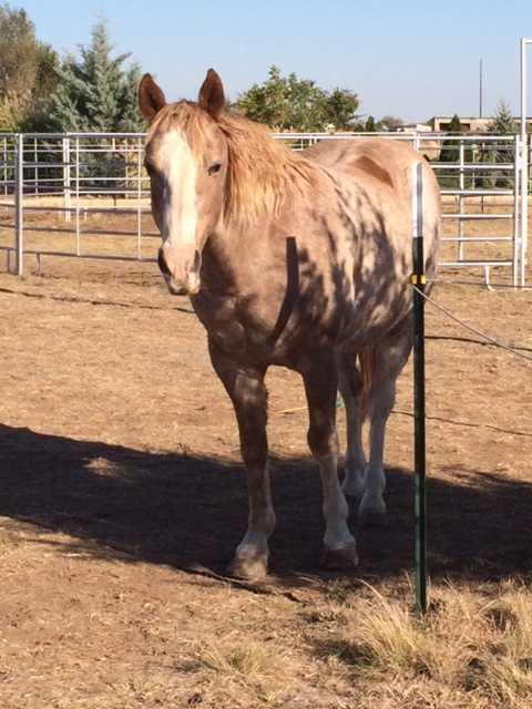 red roan